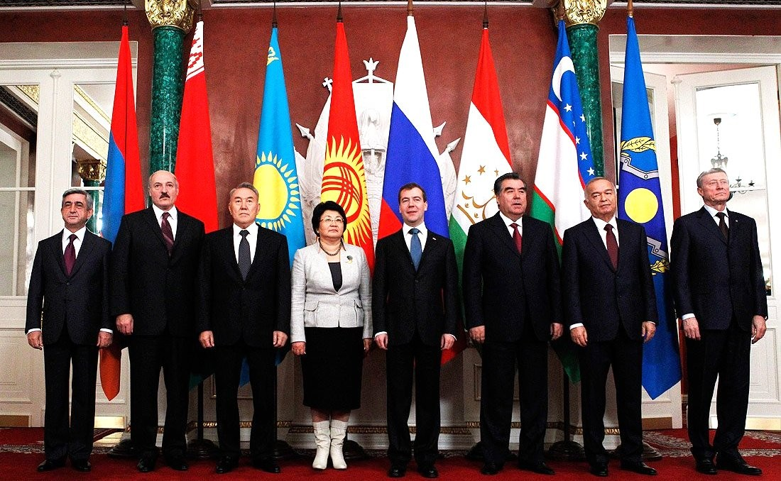 Meeting of the Collective Security Treaty Organisation 2010. Taking part in the meeting were President of Russia Dmitry Medvedev, President of Belarus Alexander Lukashenko, President of Armenia Serzh Sargsyan, President of Kazakhstan Nursultan Nazarbayev, President of Tajikistan Emomali Rahmon, President of Uzbekistan Islam Karimov, President of Kyrgyzstan Roza Otunbayeva, and CSTO Secretary General Nikolai Bordyuzha.